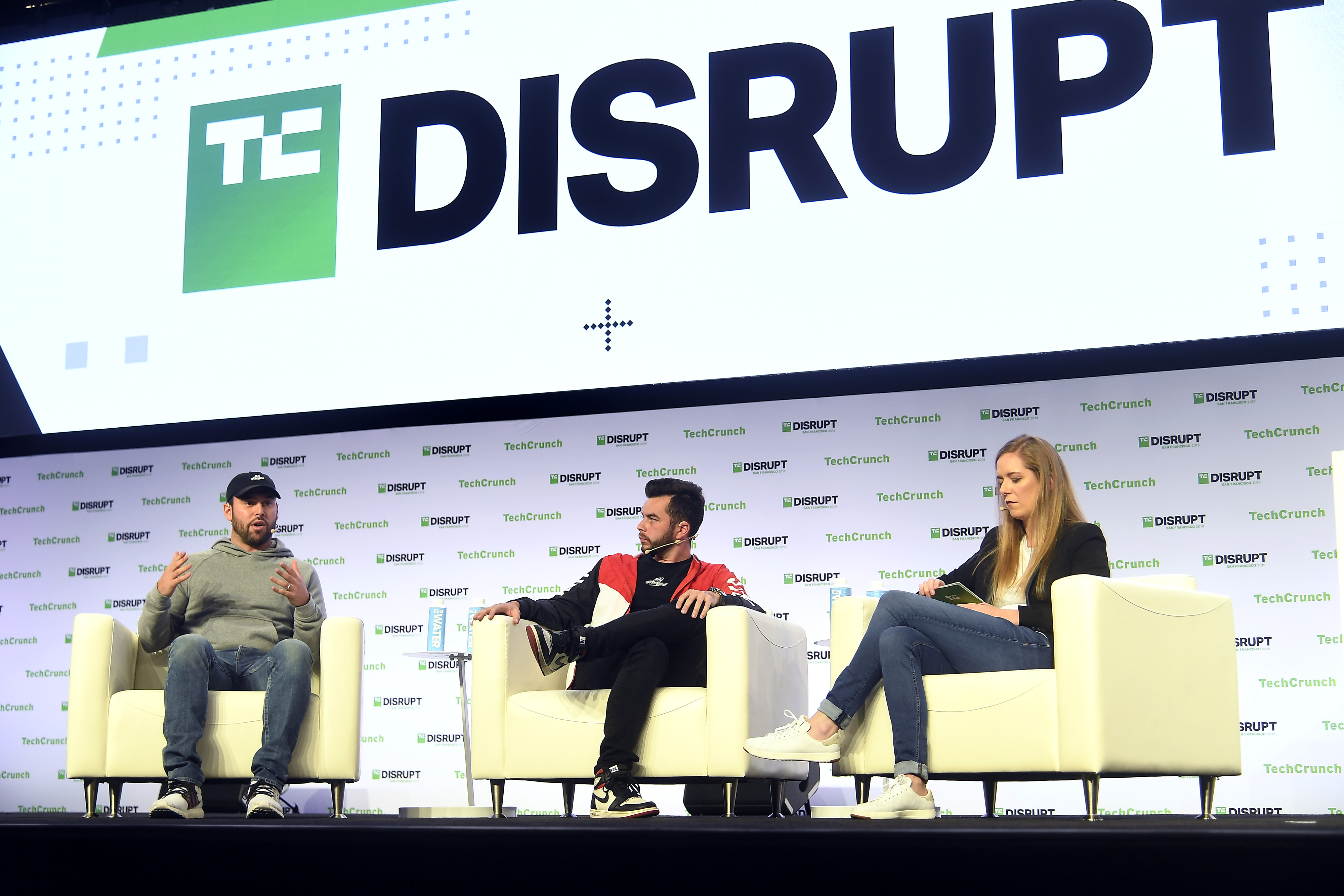 SAN FRANCISCO, CALIFORNIA - OCTOBER 03: (L-R) SB Projects Founder Scooter Braun, 100 Thieves Founder & CEO Matthew (Nadeshot) Haag, and TechCrunch Managing Editor Jordan Crook speak onstage during TechCrunch Disrupt San Francisco 2019 at Moscone Convention Center on October 03, 2019 in San Francisco, California. (Photo by Steve Jennings/Getty Images for TechCrunch)